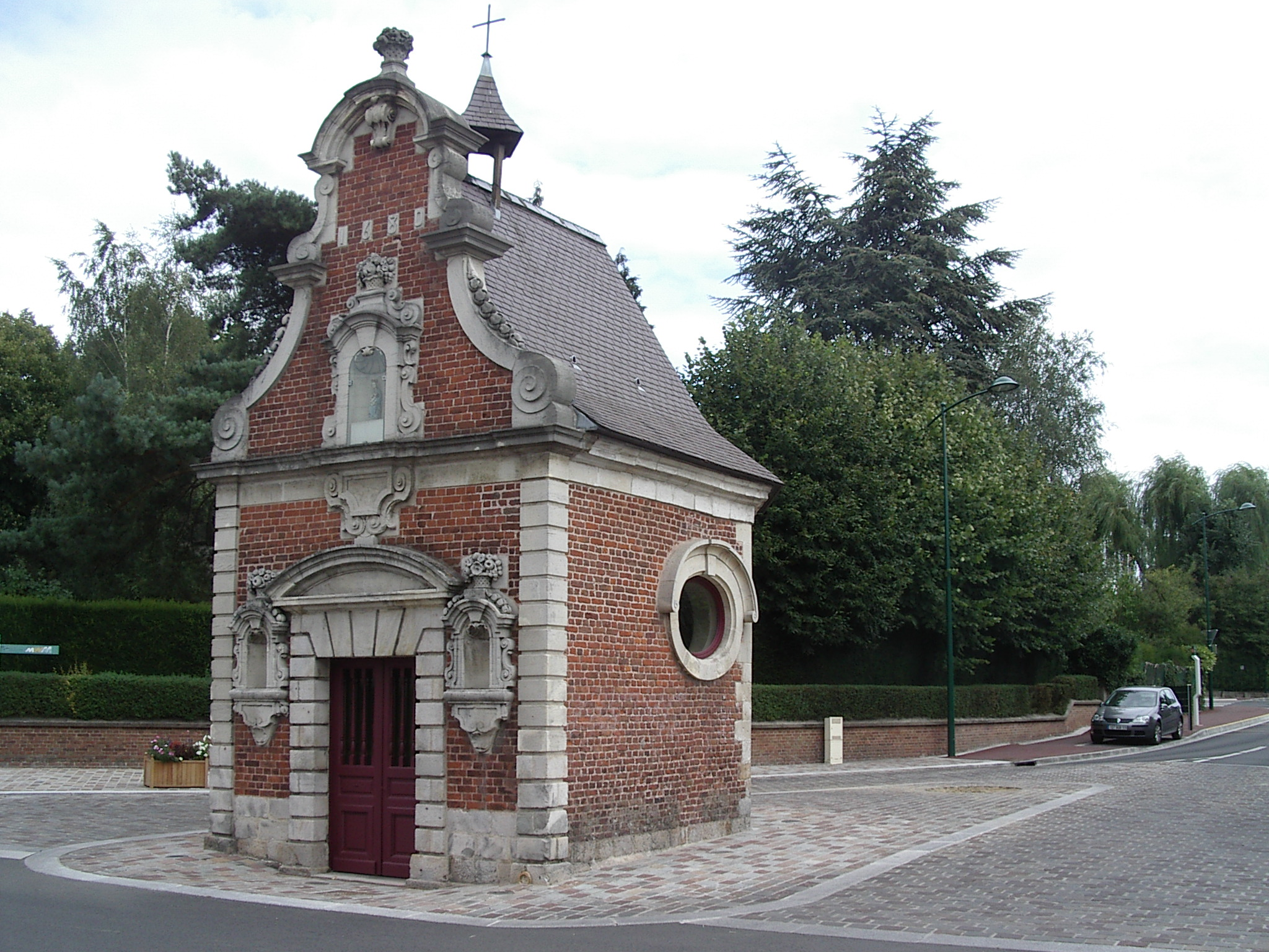 chapel "Lazaro" of Mouvaux